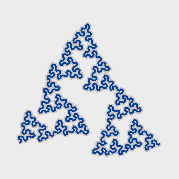 Alteration of the generation rules of a Sierpinski triangle to create a new form. Created with CLACL.